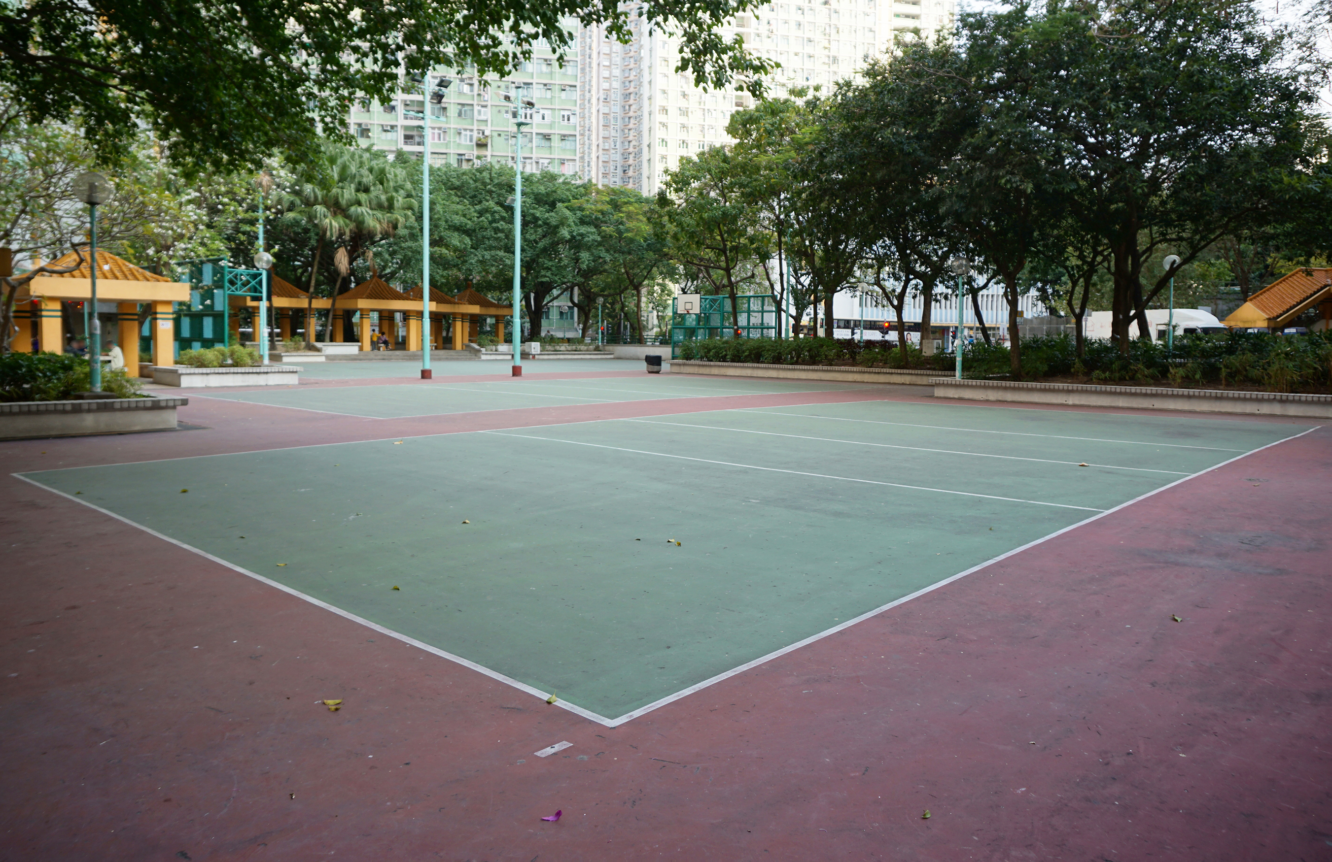 Lower Wong Tai Sin Estate in Wong Tai Sin, Hong Kong.